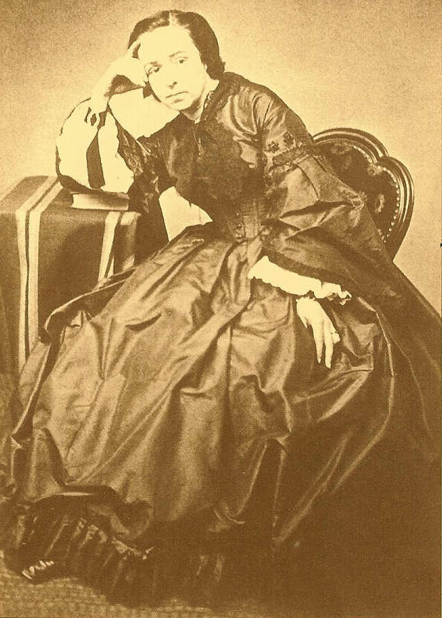 The author André Léo